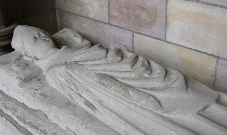 Dunblane Cathedral, Perth and Kinross, Scotland - effigy of bishop Clement